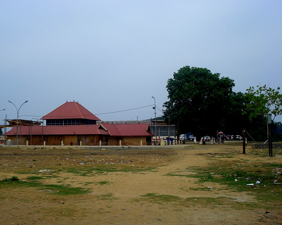 Shiva temple situated on the banks of Periyar river, Aluva. where Aluva Shivarathri is celebrated